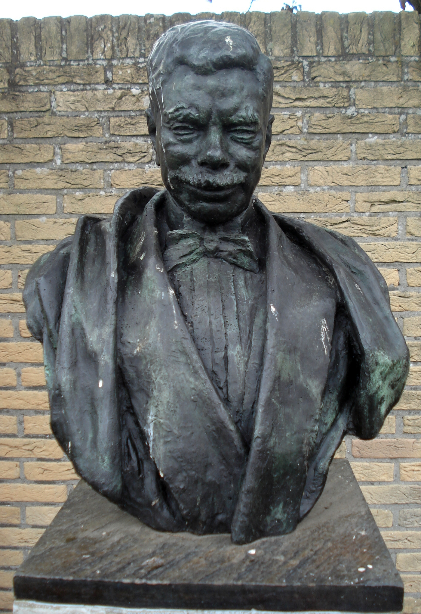 Bust of Pieter Zeeman in Zonnemaire (Schouwen-Duiveland, Zeeland, Netherlands) by Jobs Wertheim (1950); Gift from the City of Amsterdam.